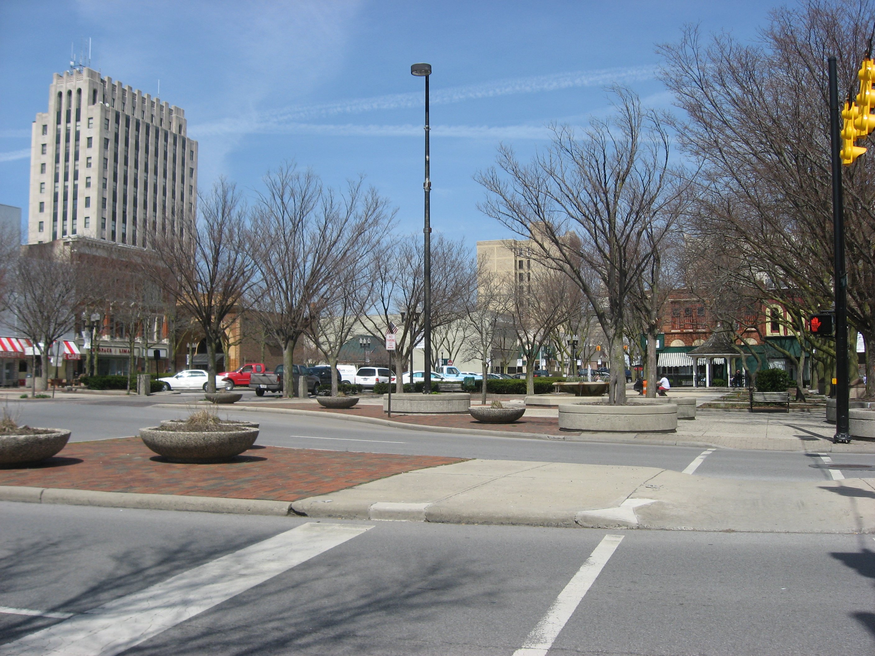 Public Square in downtown Lima, Ohio, United States, seen from the square's southeastern corner.